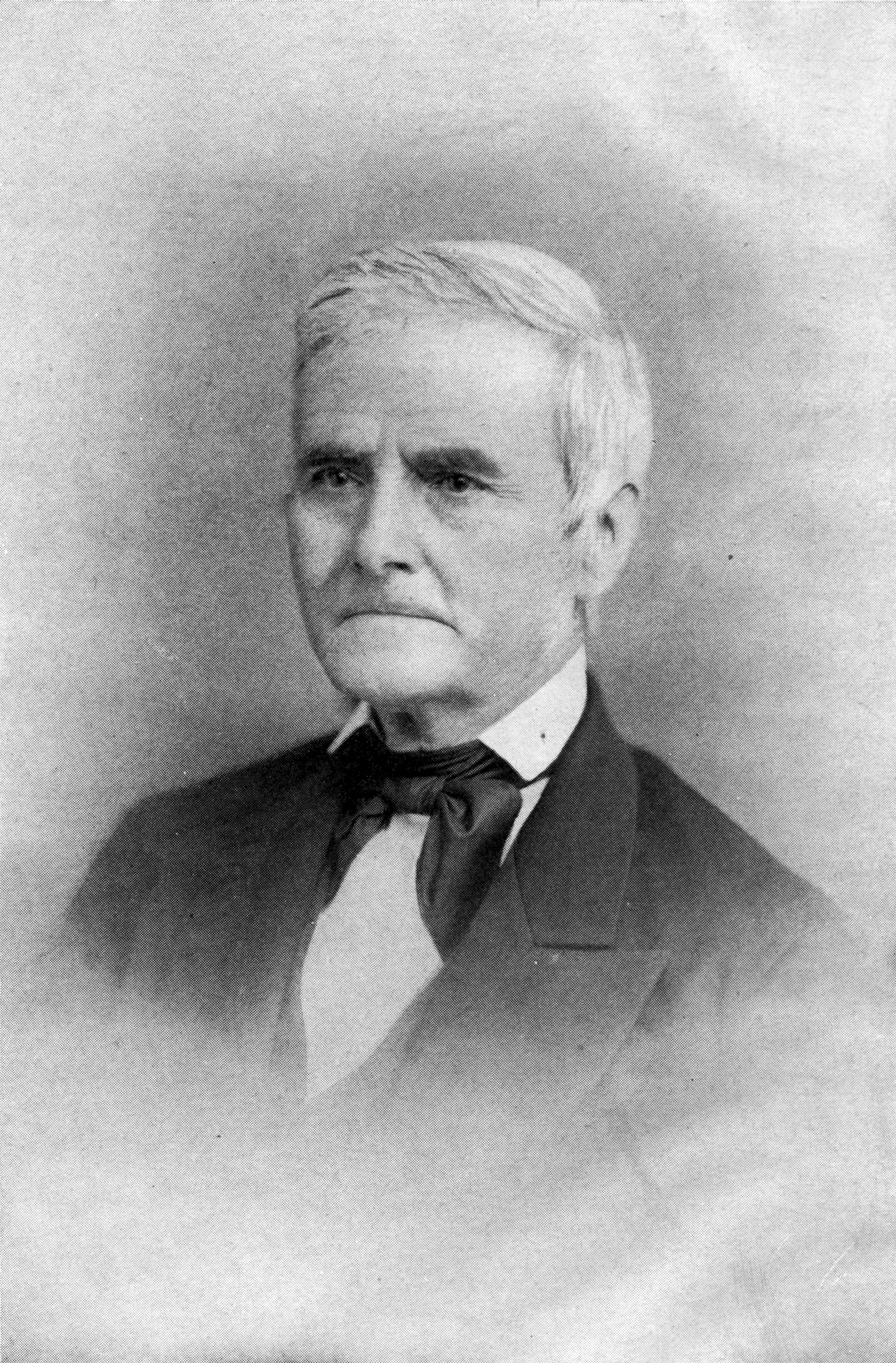 Photograph of Isaiah Vansant Williamson (1803–1899), founder of the Williamson Free School in Pennsylvania, and largest donor to the building of the Hospital of the University of Pennsylvania in Philadelphia.